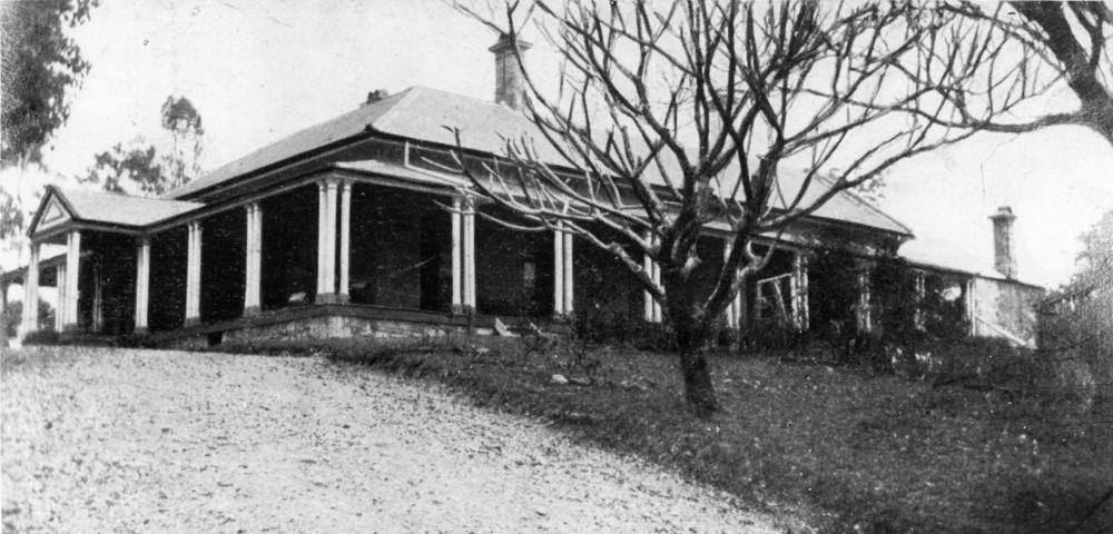 Oakwal, circa 1930